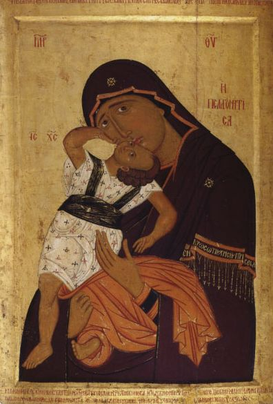 Pelagontissa